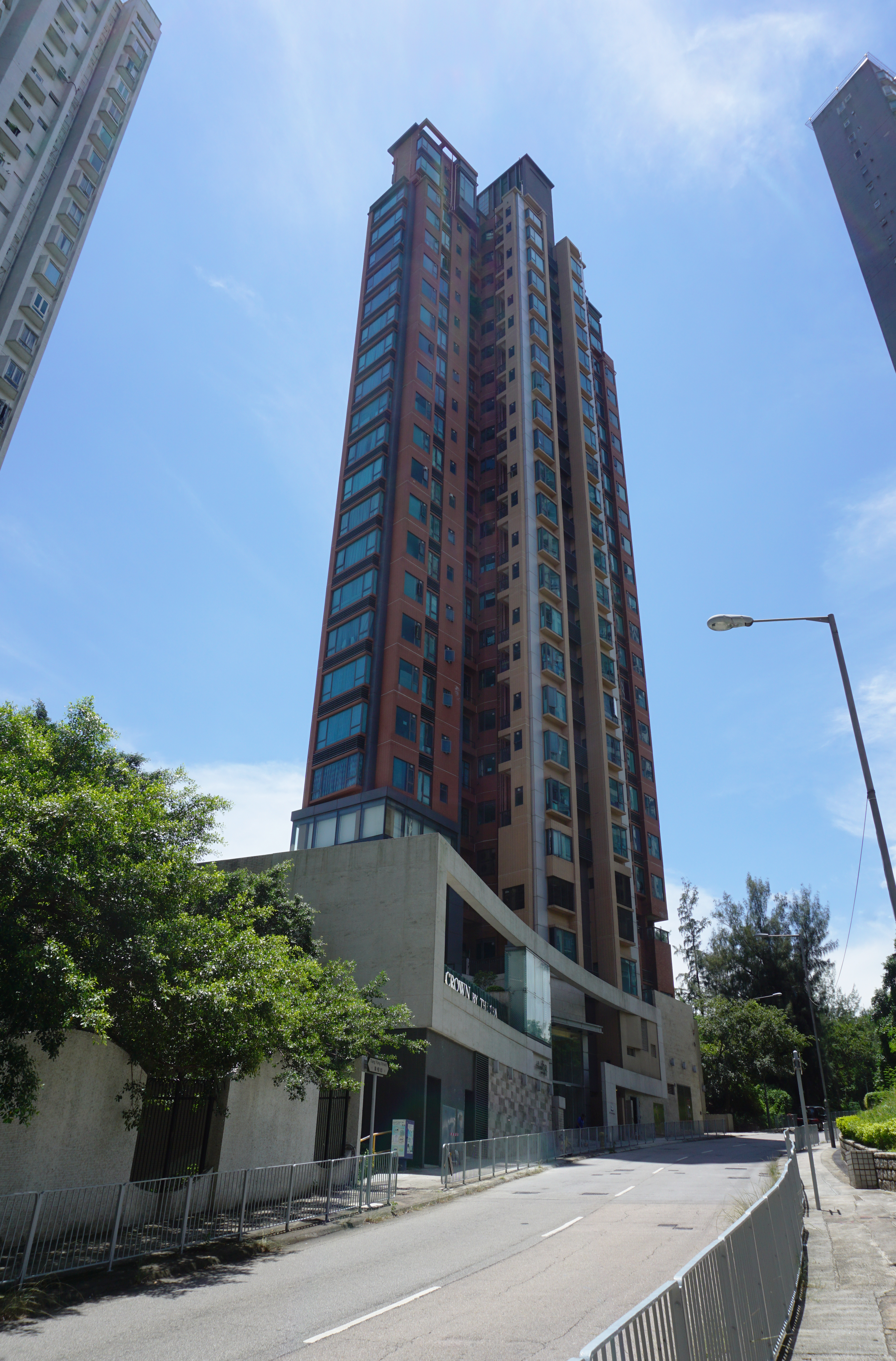 Crown By The Sea in Castle Peak Bay, Hong Kong.